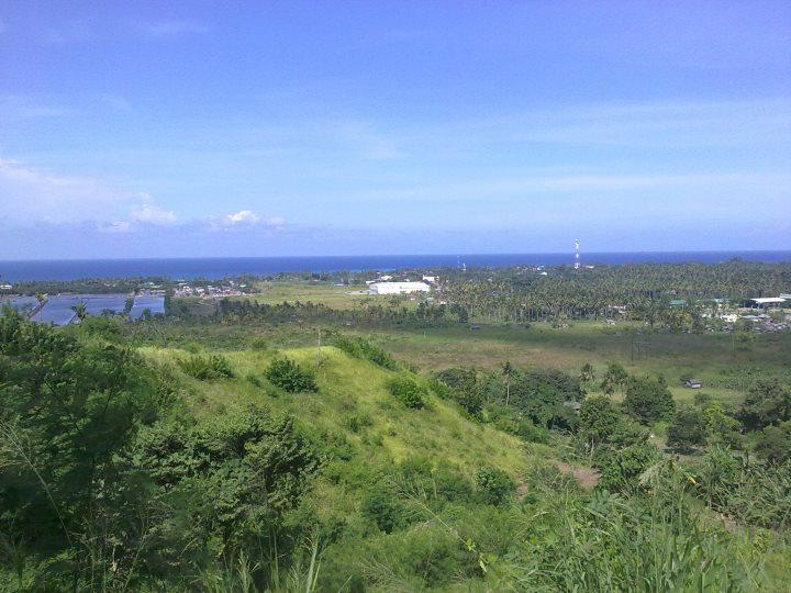 Poblacion, Malita from a viewdeck